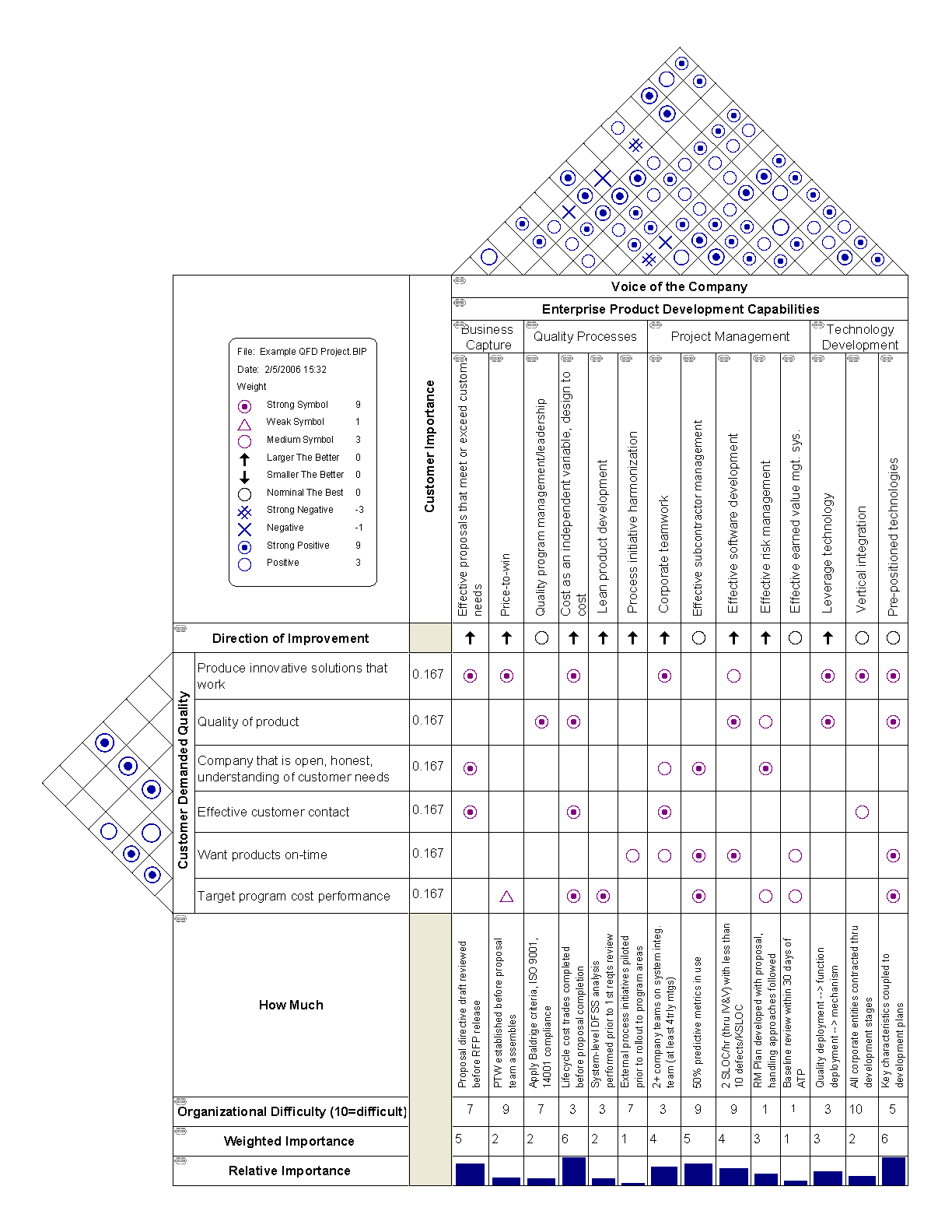 House of Quality is a diagram, resembling a house,[1] used for defining the relationship between customer desires and the firm/product capabilities